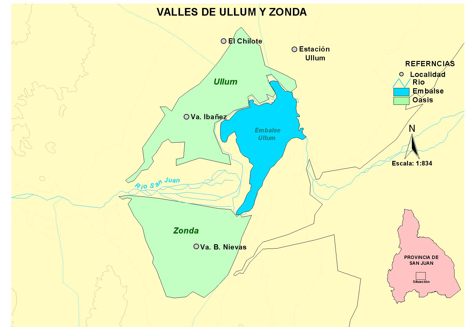 Map of Ullum and Zonda Valley, San Juan Province, Argentina.